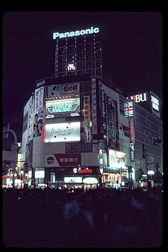 This was taken at the 5-way intersection across from Hachiko plaza. Note the sign for Tokyu Hands - one of the funnest places on the planet to shop.